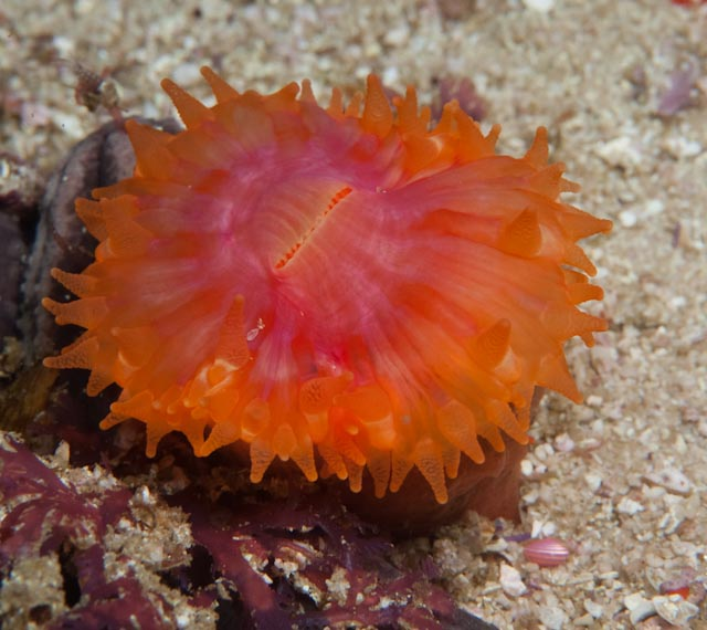 A photograph of a cup coral, Caryophyllia sp., taken in about 20m of water in False Bay off Cape Town, South Africa using a Fuji SP5.